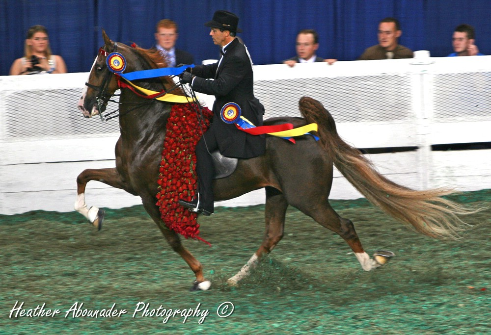 images by Heather Abounader